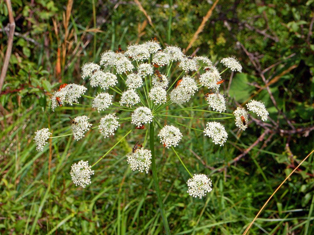 Laserpitium latifolium - Parco dell'Antola, Genova, Italy